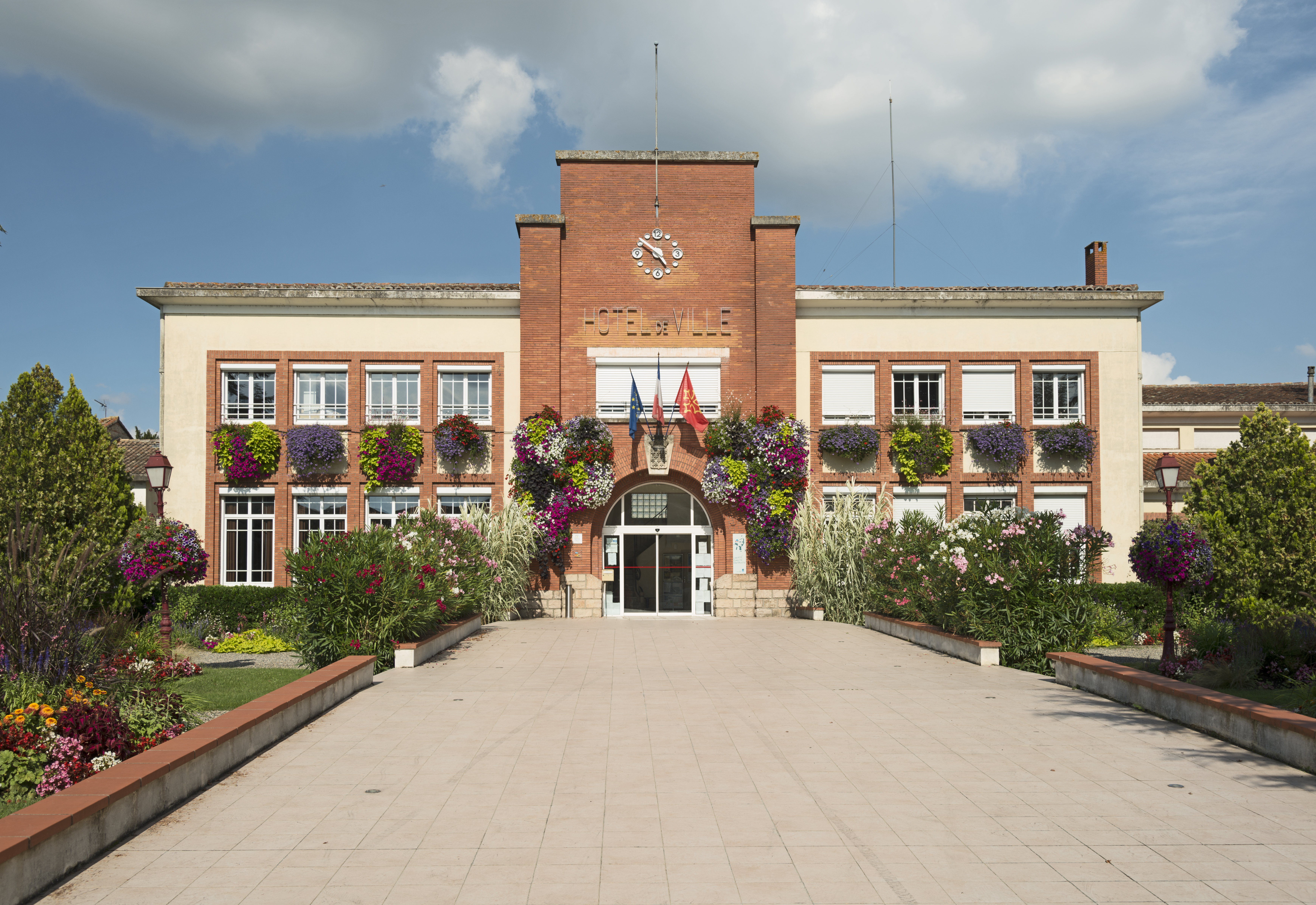 Grenade, Haute-Garonne. The town hall. Facade.